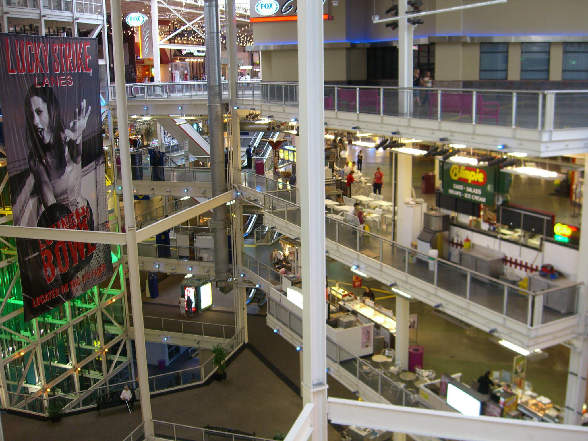 Shot of the four floors of the Palisades Center Mall in West Nyack.